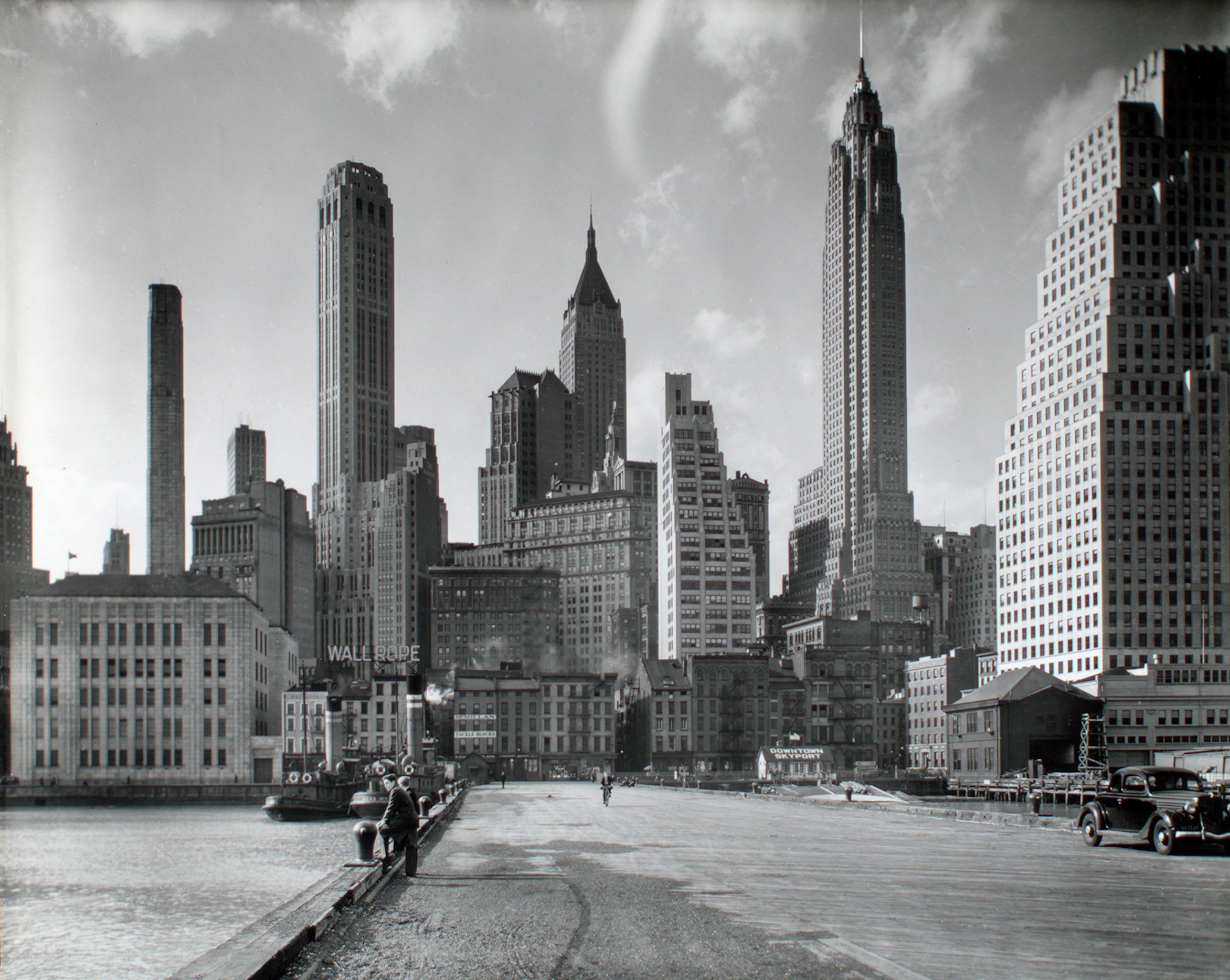 Manhattan Skyline: I. South Street and Jones Lane from East River Pier 11, Manhattan. 120 Wall Street far right; American International bldg right, 40 Wall St pointy top in center.